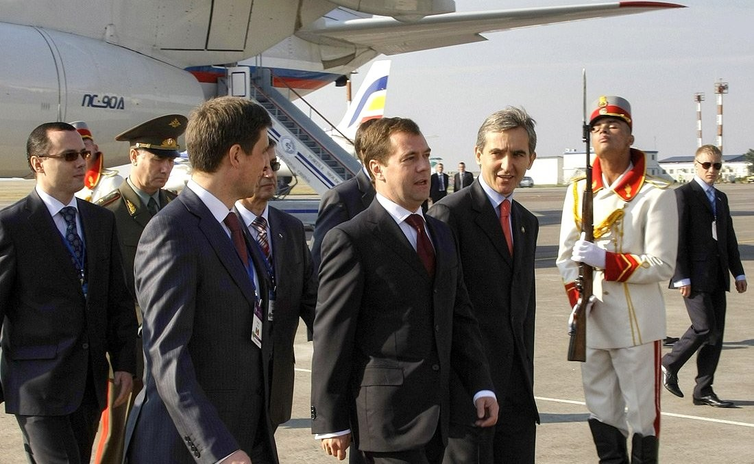 CHISINAU. Arrival in Chisinau